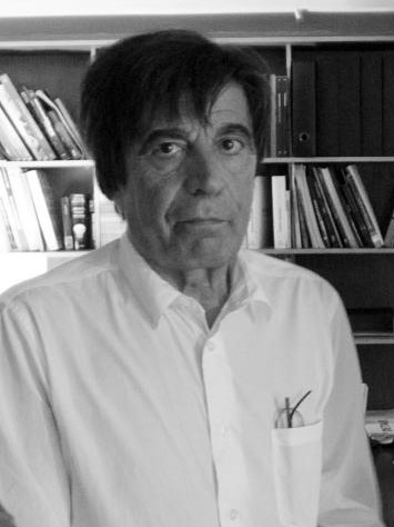 Carlos Ferrater, spanish architect